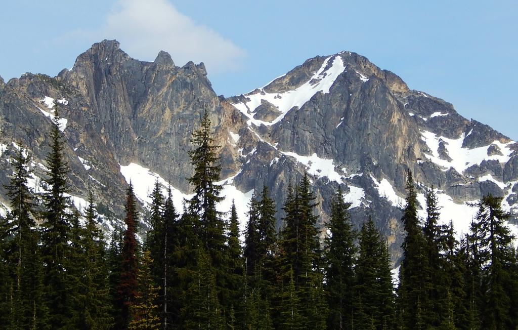 Half Moon and Wallaby Peak, one of many summits on Kangaroo Ridge in the North Cascades range. Seen from Washington Pass.